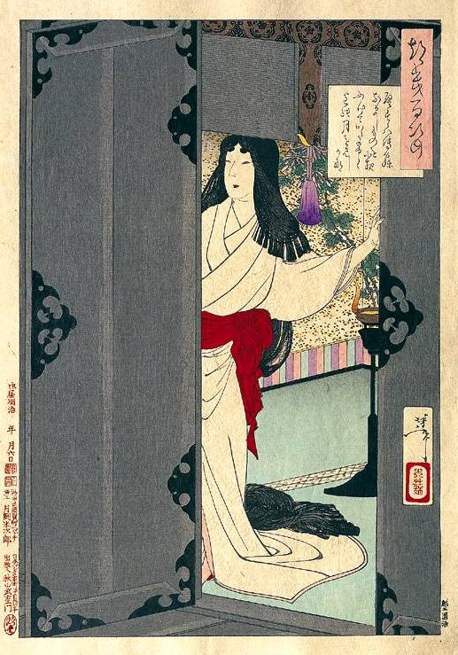 Akazome Emon viewing the moon from her palace chambers